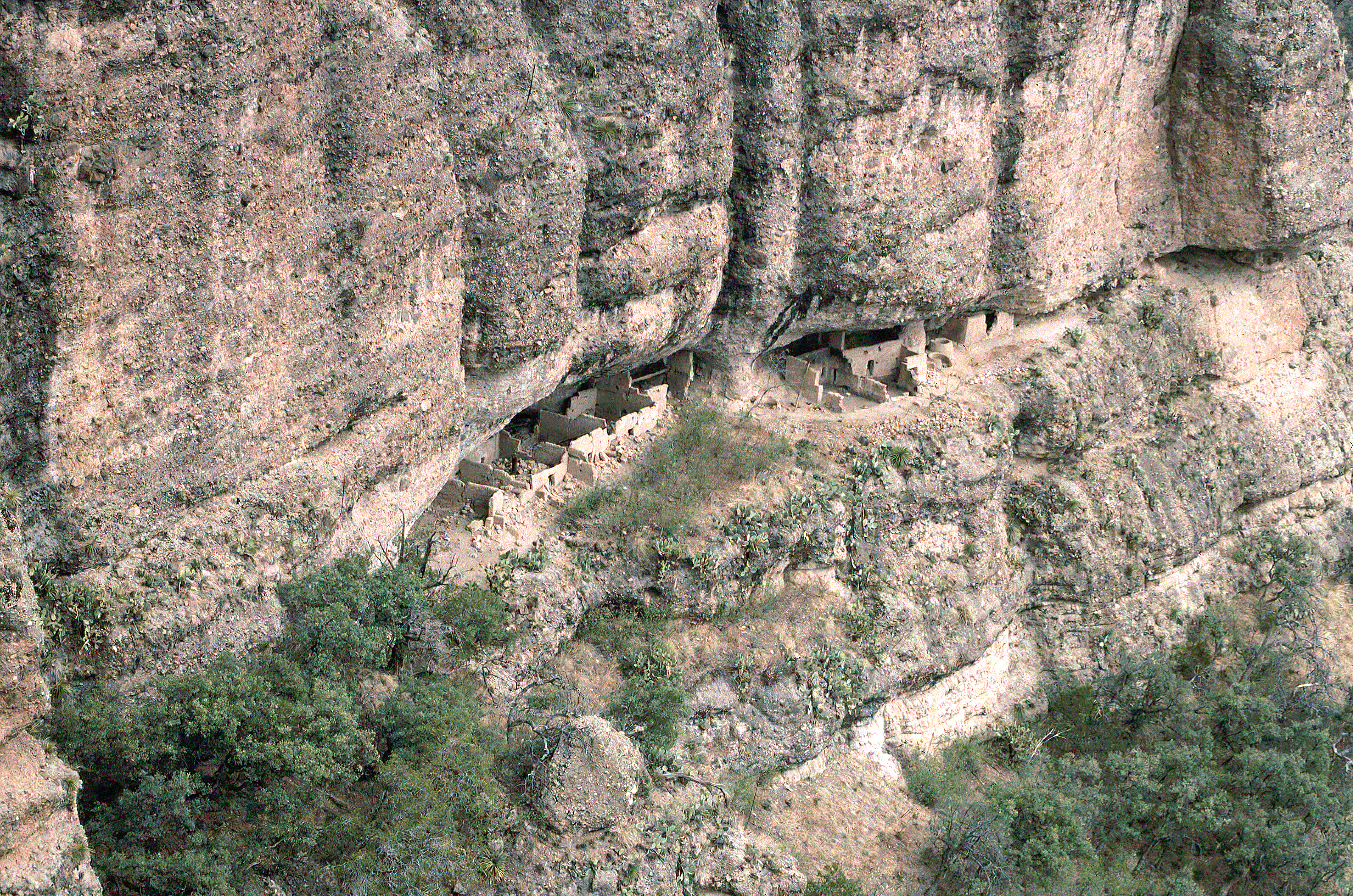 Complejo Huapcoa, at Cuarenta Casas. Ancient cliff dwellings in Chihuahua, northern Mexico.